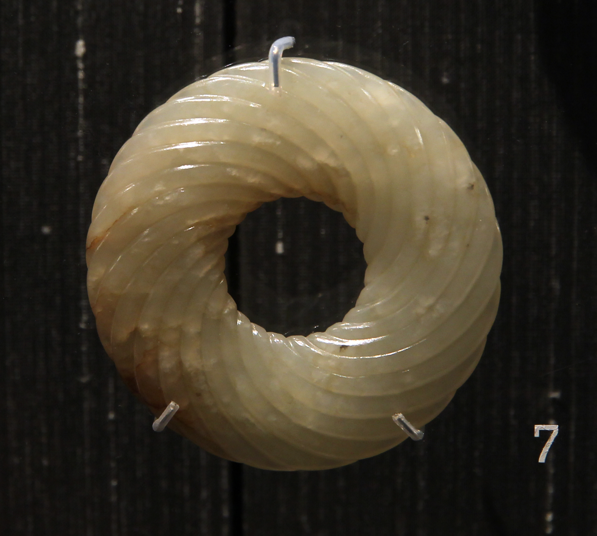 Ring-shaped pendant with spiral grooves, jade, Eastern Zhou dynasty, 600-200 BC. British Museum, room 33b ( the Selwyn and Ellie Alleyne Gallery ).